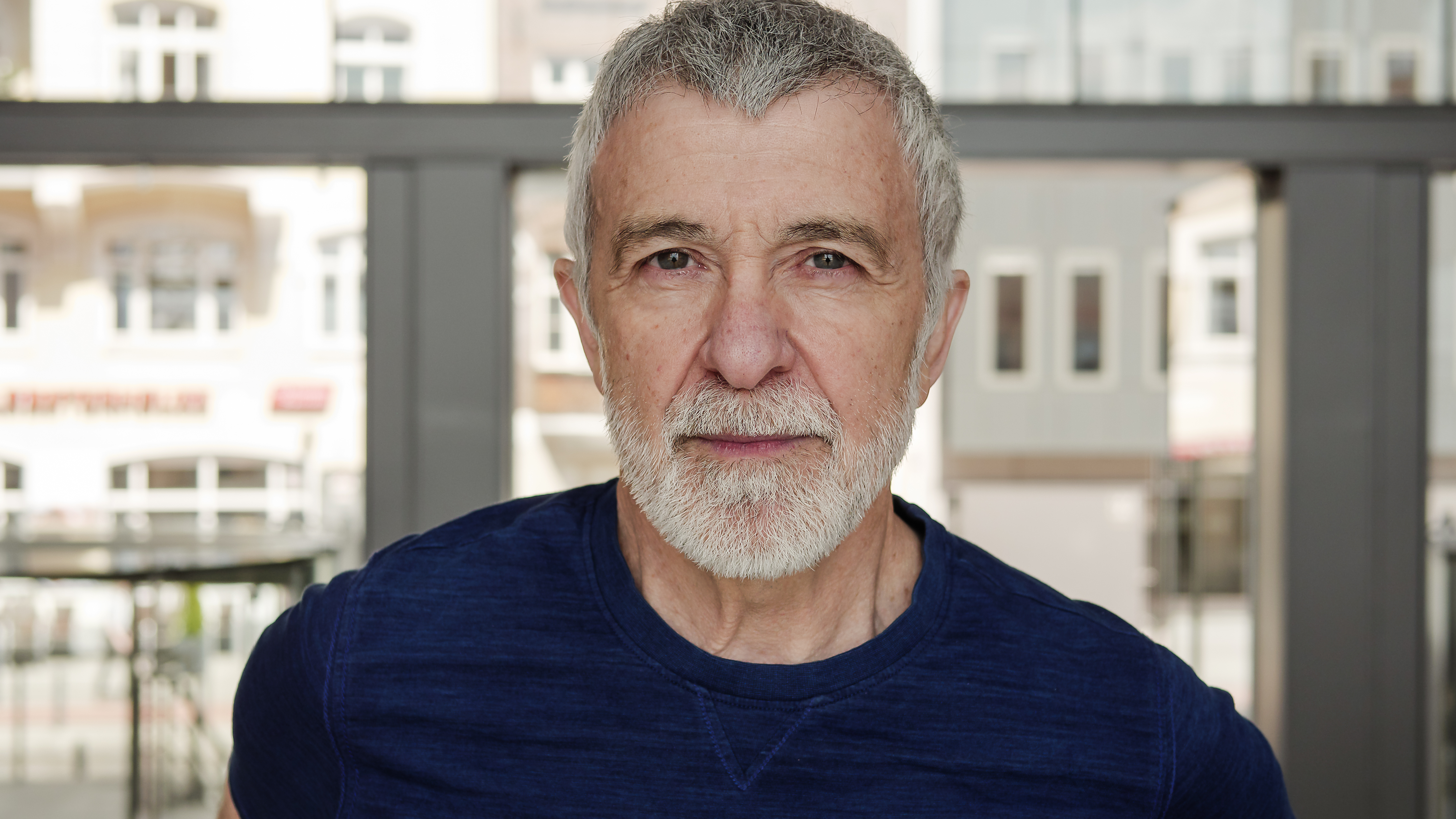 Actor/Director